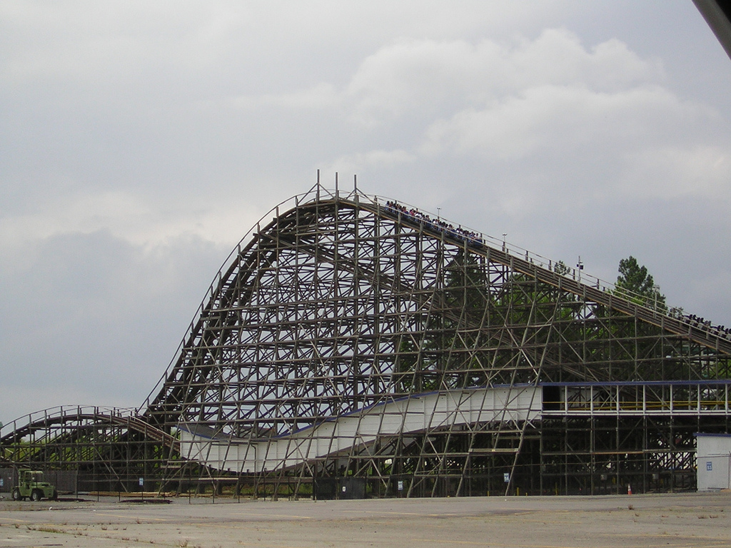 Thunder Road roller coaster at Paramount's Carowinds.